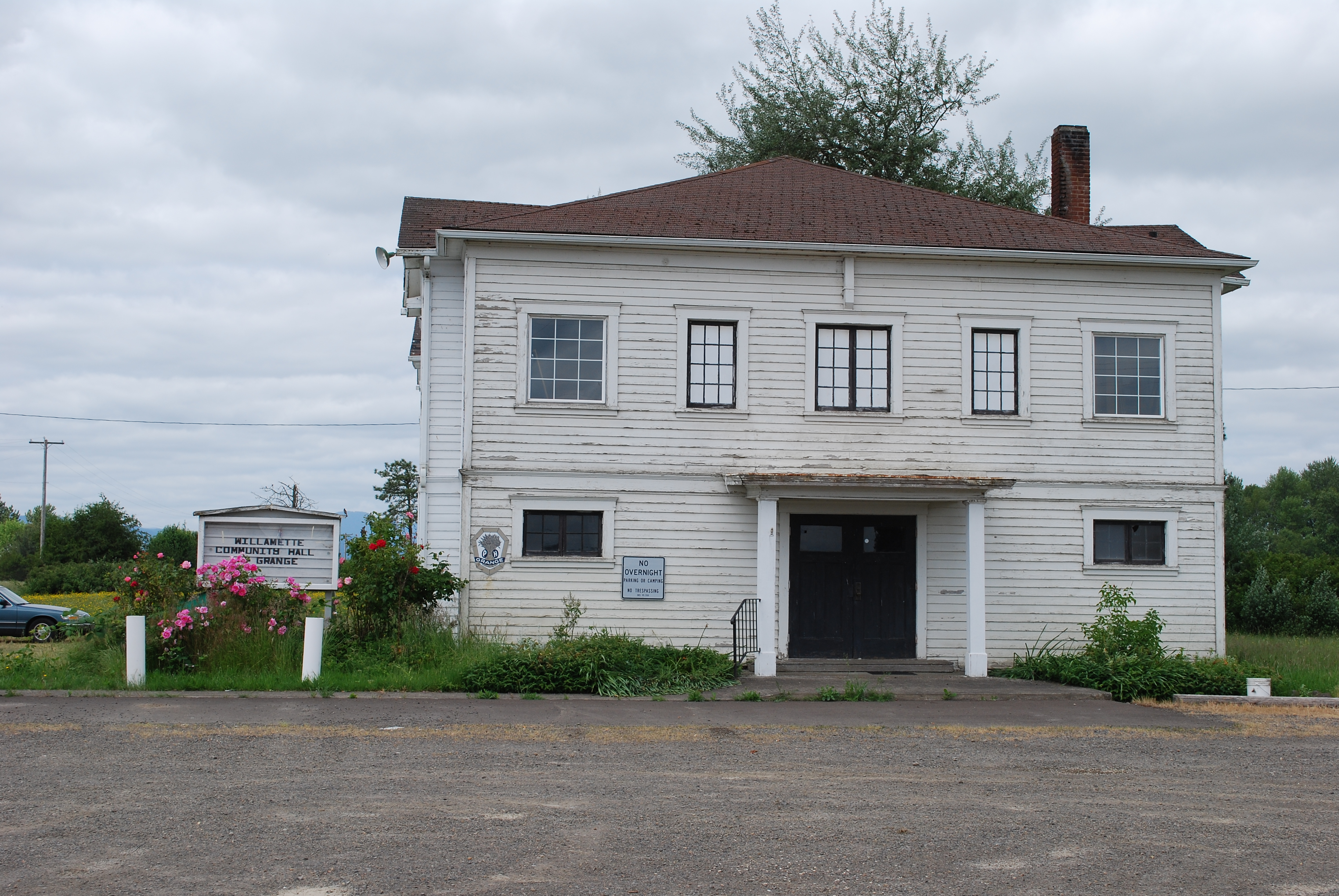 The historic Willamette Community and Grange Hall (built 1922), located at 27555 Greenberry Road near Corvallis, Oregon, United States, is listed on the US National Register of Historic Places (NRHP).NRHP reference number 09000359